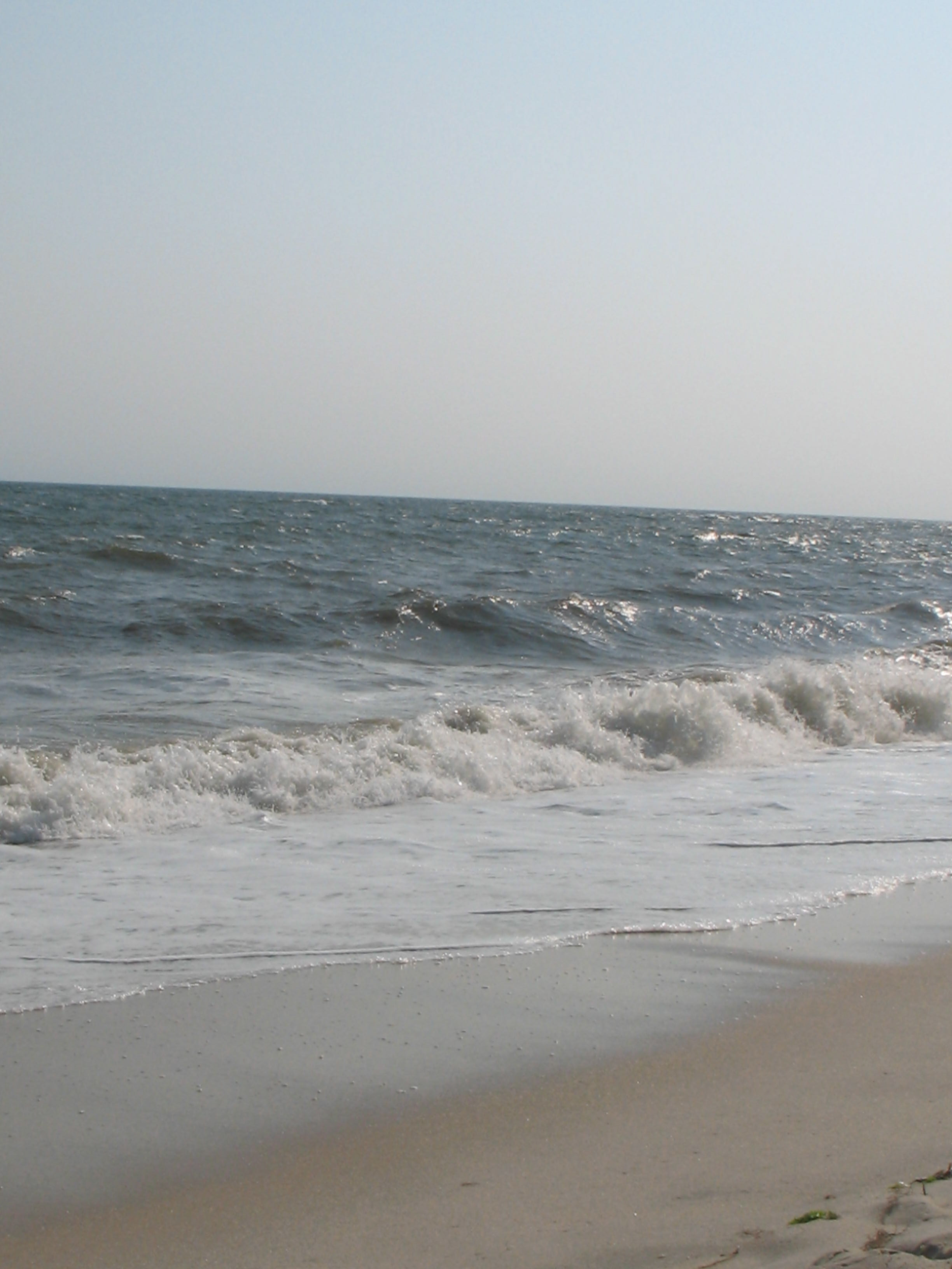 The Atlantic Long Island NY ... Stevan